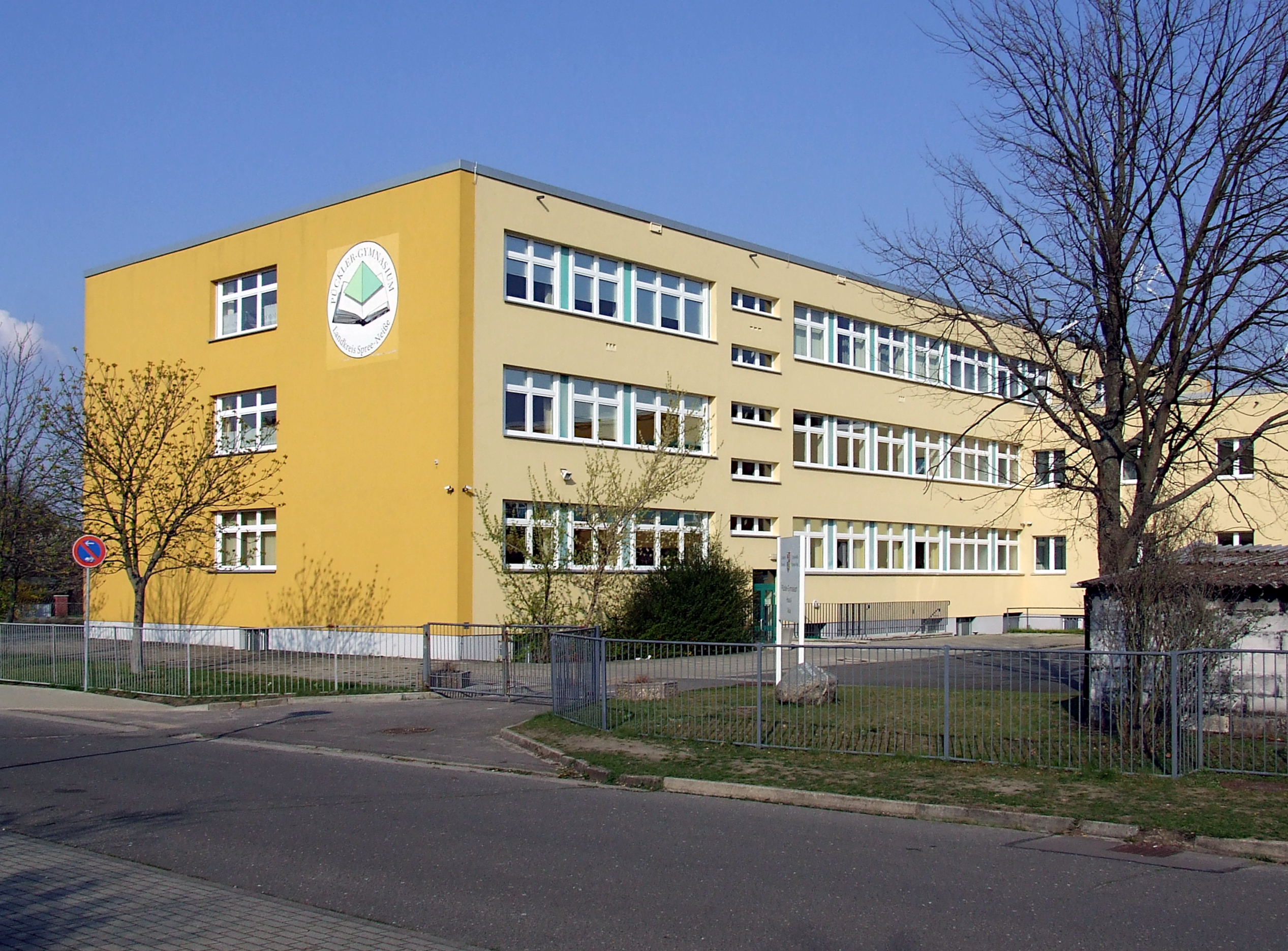 Haus A of secondary school Pückler-Gymnasium, Hegelstraße 1-1a and 4 in Cottbus-Sachsendorf.